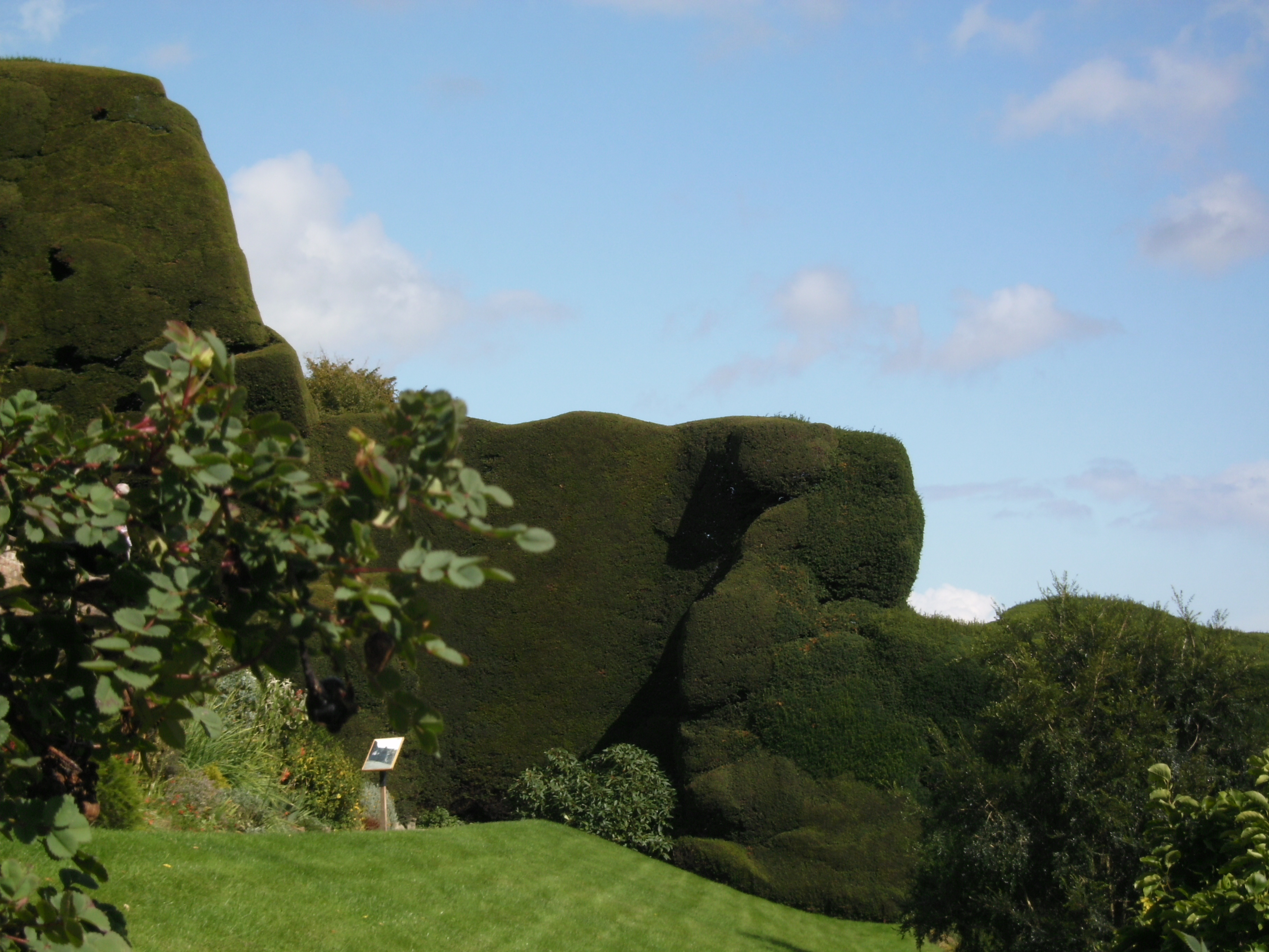 Yew hedges at Powis Castle, Y Trallwng/Welshpool, Powys, Wales